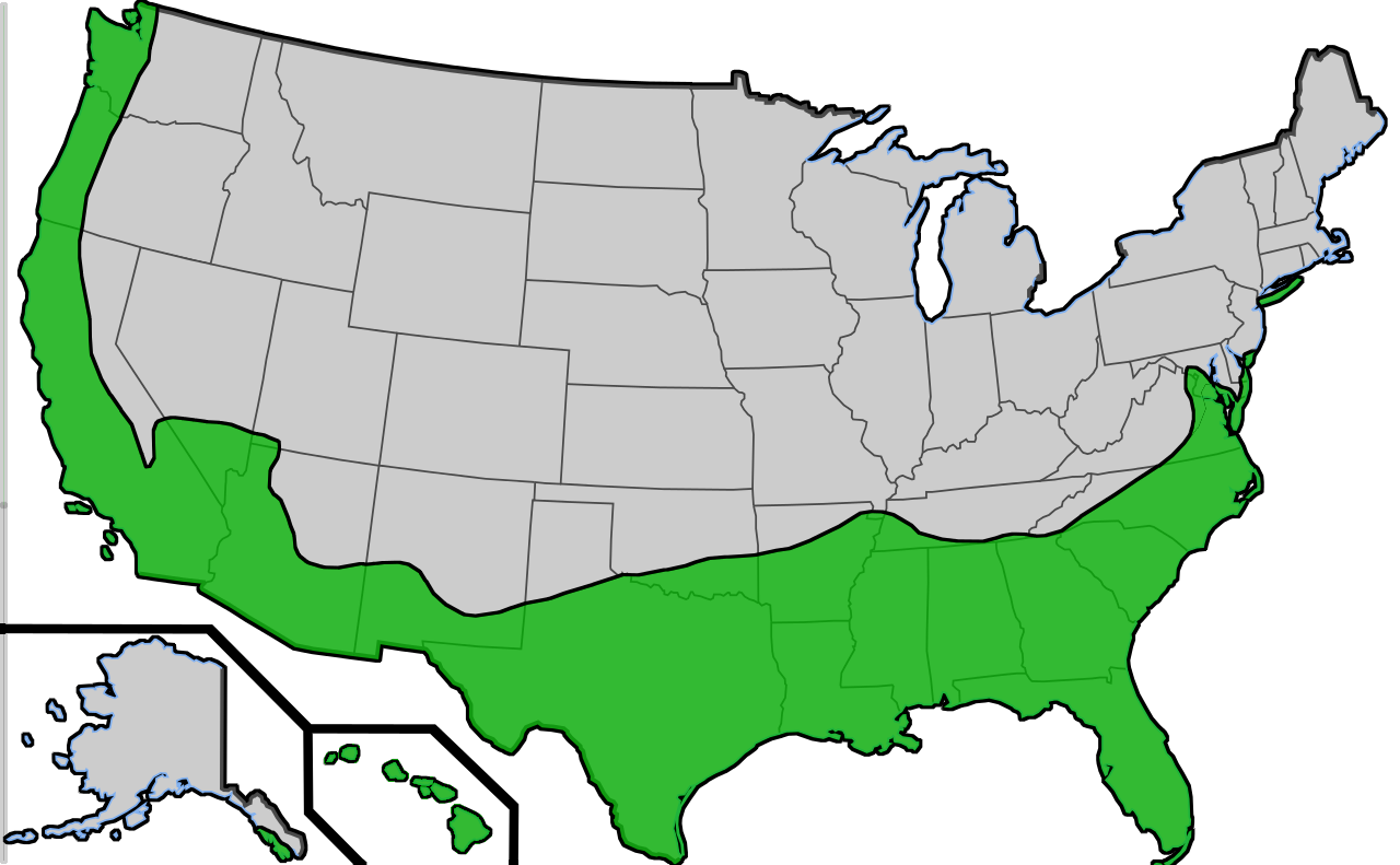 Approximate range in the US where Windmill Palms can be cultivated with little to no winter protection.